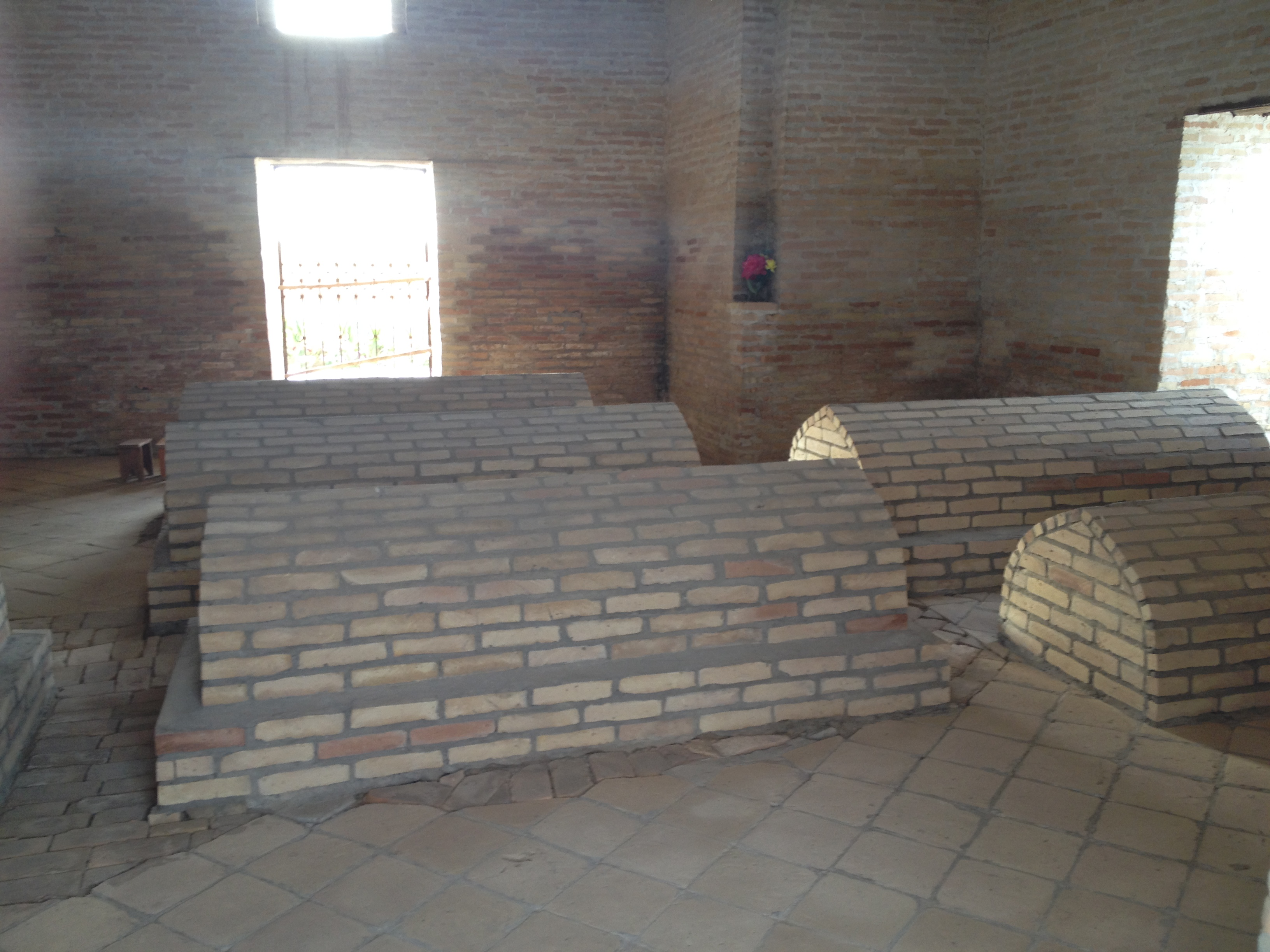 Tombs in Kyzyl Mazar mausoleum